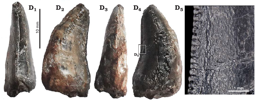 Spinosaurid tooth from the Middle Jurassic Tegama Group, Agadez, Niger. MUPE HB-87 in distal (D1), lingual (D2), mesial (D3), and labial (D4) views; close-up view of the labial side (D5); notethe deeply veined enamel surface texture and the shape and size of the distal denticles.